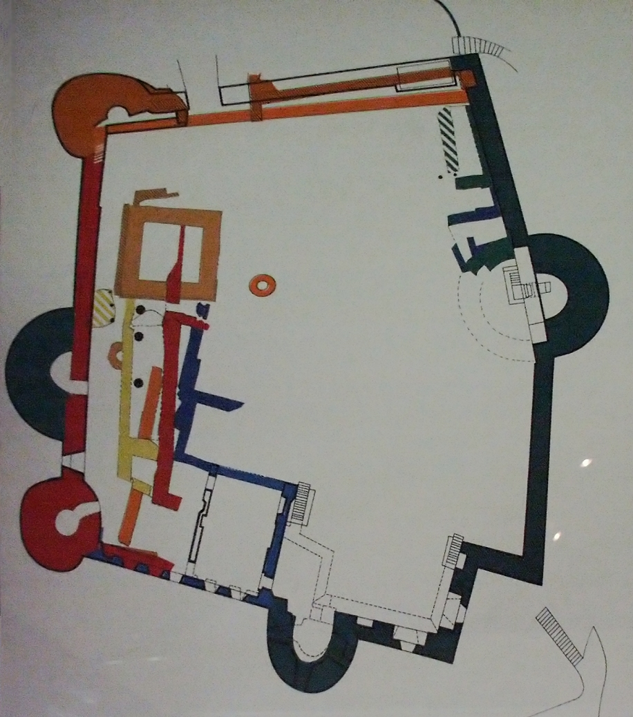 Floorplan of Castle Reuland on the information panel of the castle